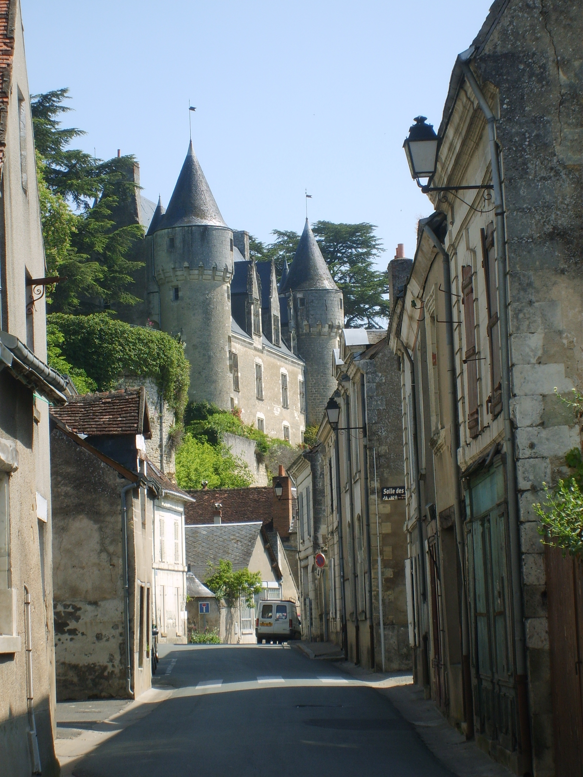 Montrésor en Indre-et-Loire, en France. Publish by= User:Stephane8888 Self made